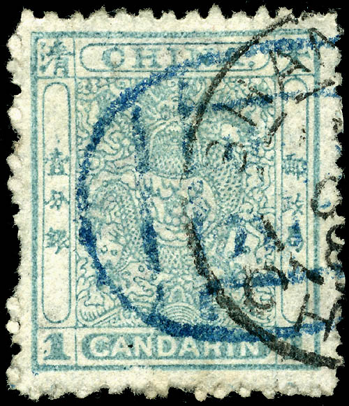 1-candareen stamp of 1885, Chinese Qing dynasty